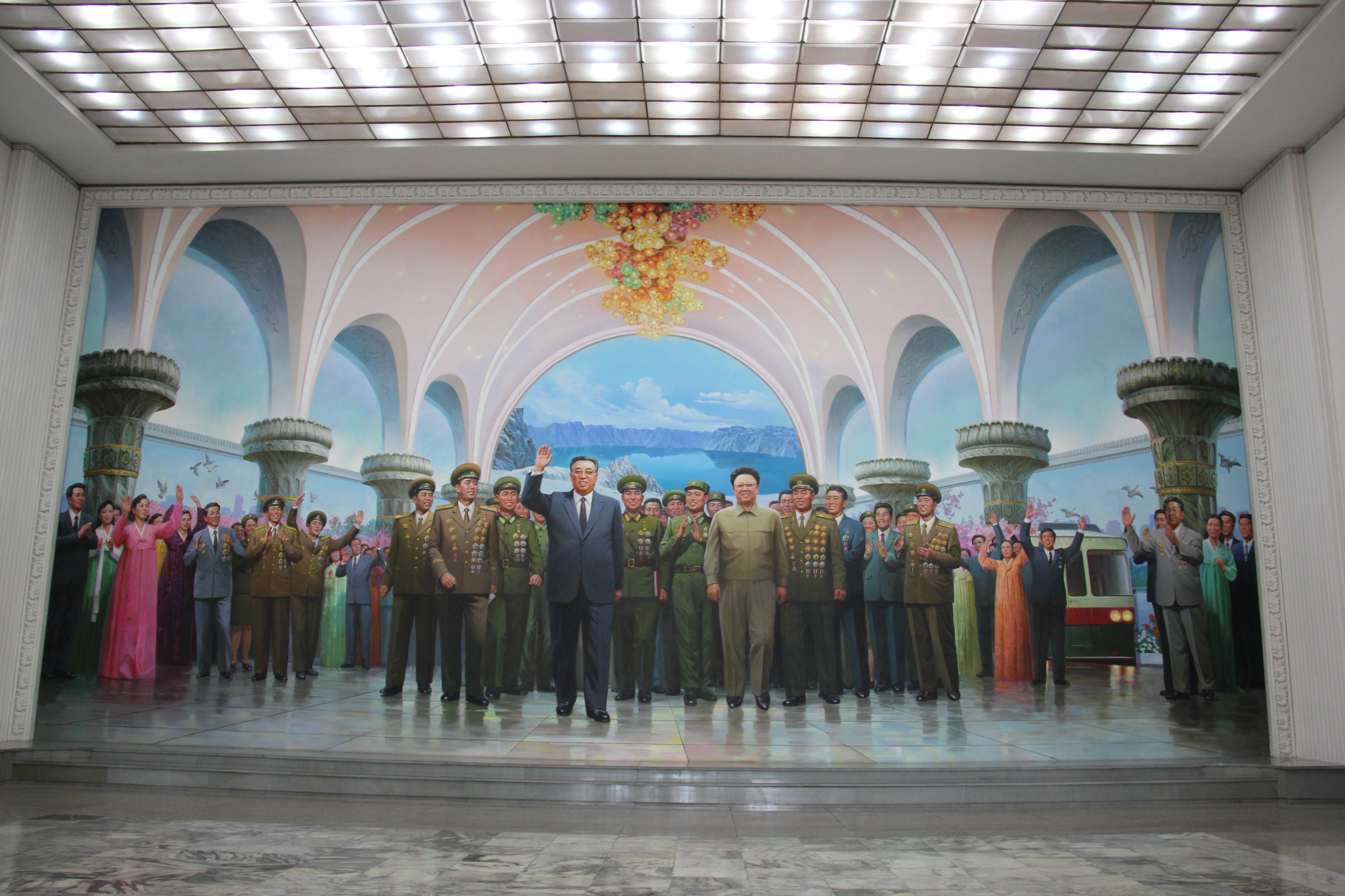 They're in Yonggwang Station.